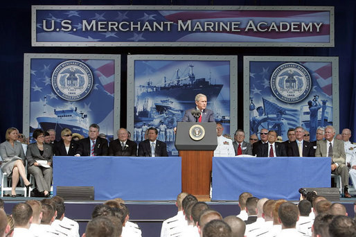 President George W. Bush delivers the commencement address during the graduation ceremony at the United States Merchant Marine Academy at Kings Point, New York, Monday, June 19, 2006.